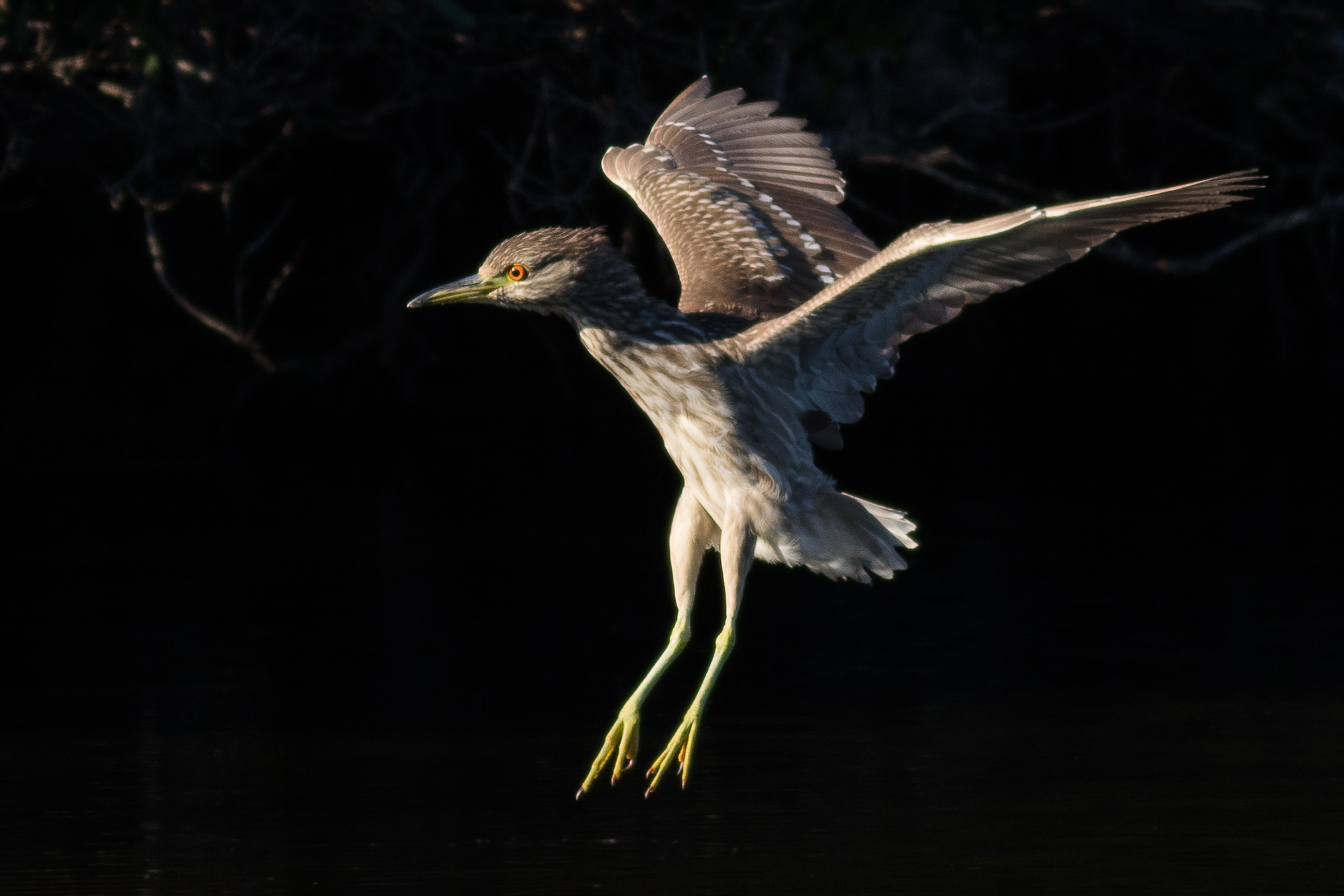 Juvenile black-crowned night heron (Nycticorax nycticorax) in flight at Las Gallinas Wildlife Ponds, Marin County, California.